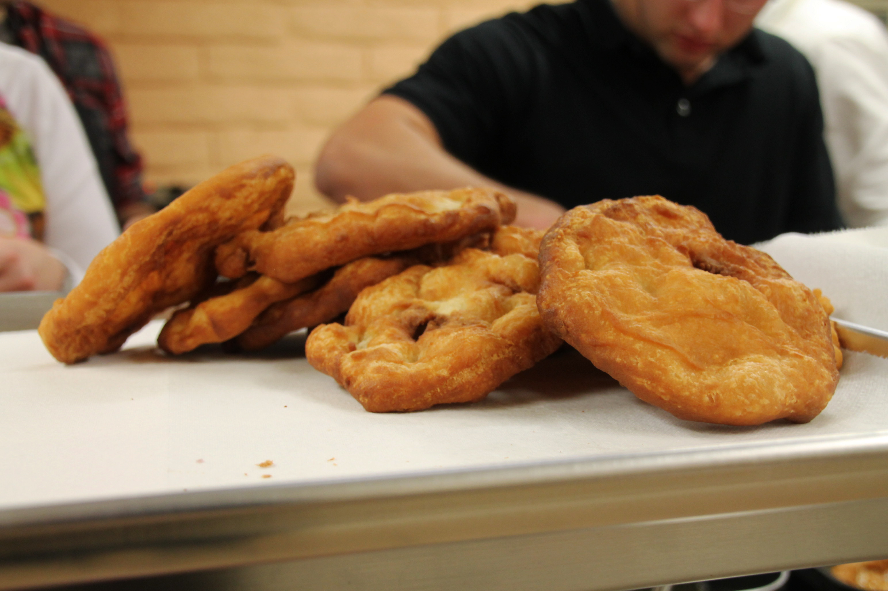 Lángoses